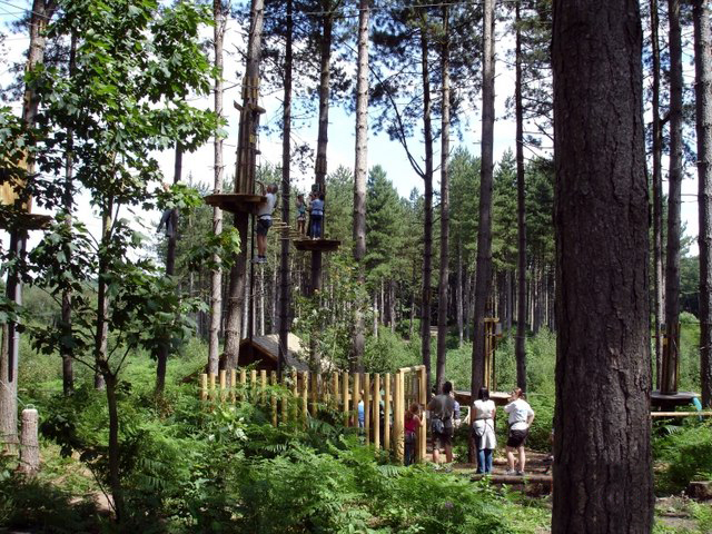 Delamere, "Go Ape" in Delamere Forest. New attraction for all ages located near the Linmere Visitor Centre in Delamere Forest. Aerial walkways and ropeways.